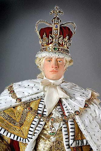 Historical figure of English King George III in state robes